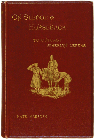 Cover of the first edition of Kate Marsden's book On Sledge & Horseback to the Outcast Siberian Lepers, 1892.